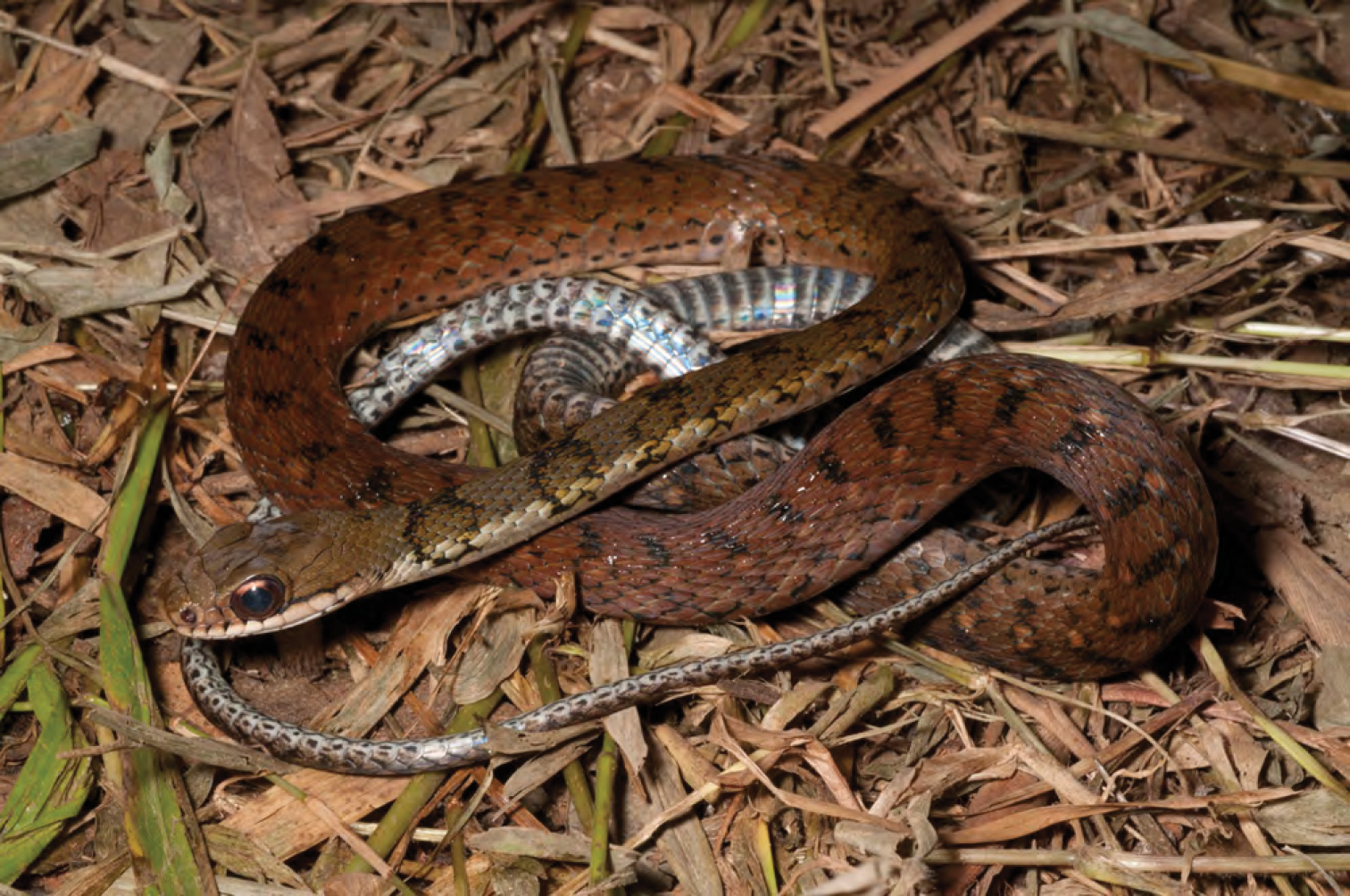 Tropidonophis dendrophiops (KU 330031) from mid-elevation, Mt. Cagua. Photo: RMB.